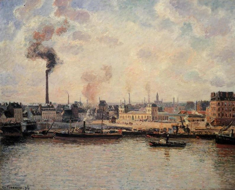 Work by Camille Pissarro, formerly in the collection of Somerset Maugham